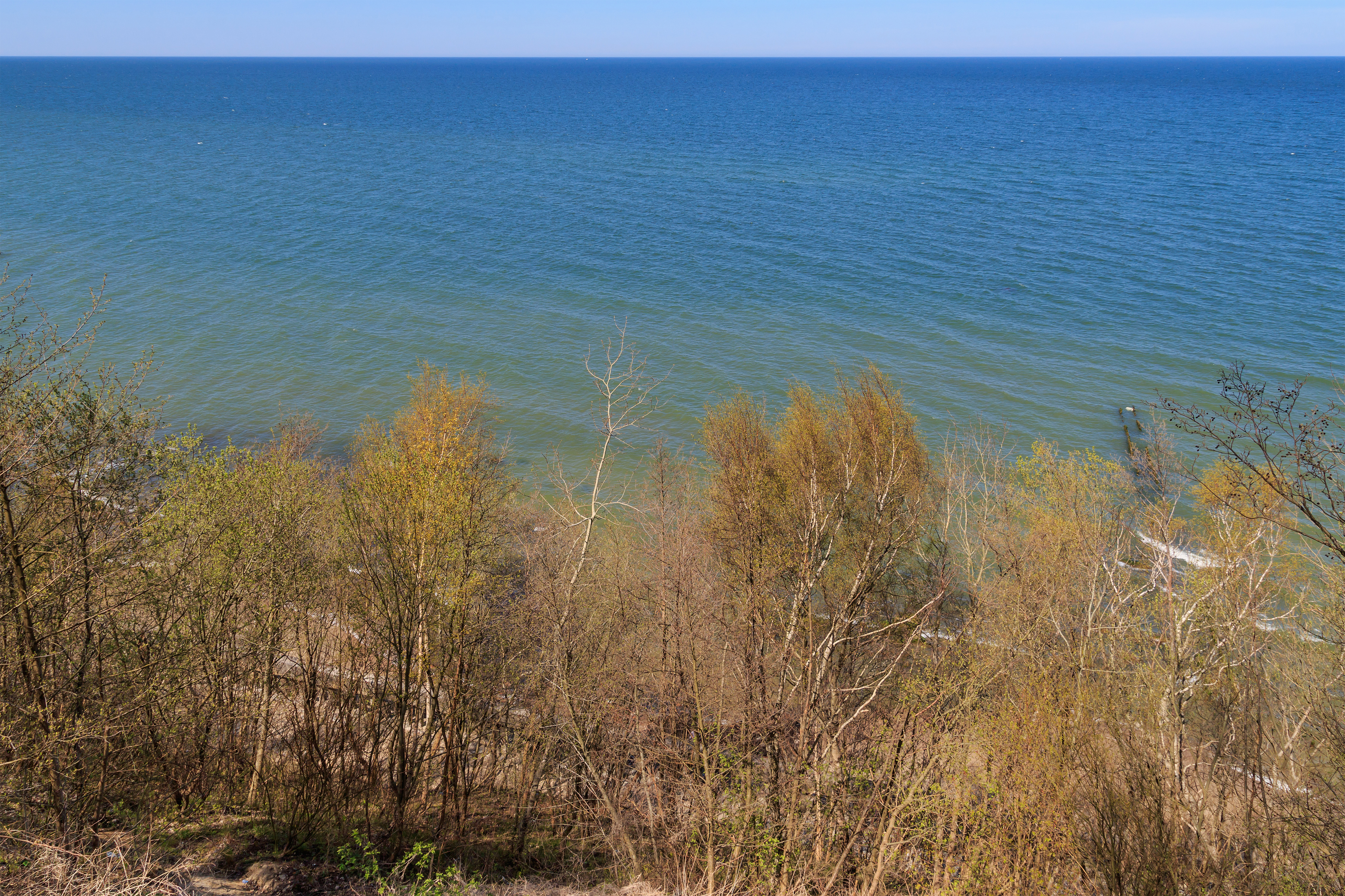 Sea beach in Svetlogorsk formerly Rauschen / Kaliningrad Oblast (Russia).